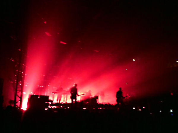 Swedish band Kent performing in Läkerol Arena, Gävle, Sweden.